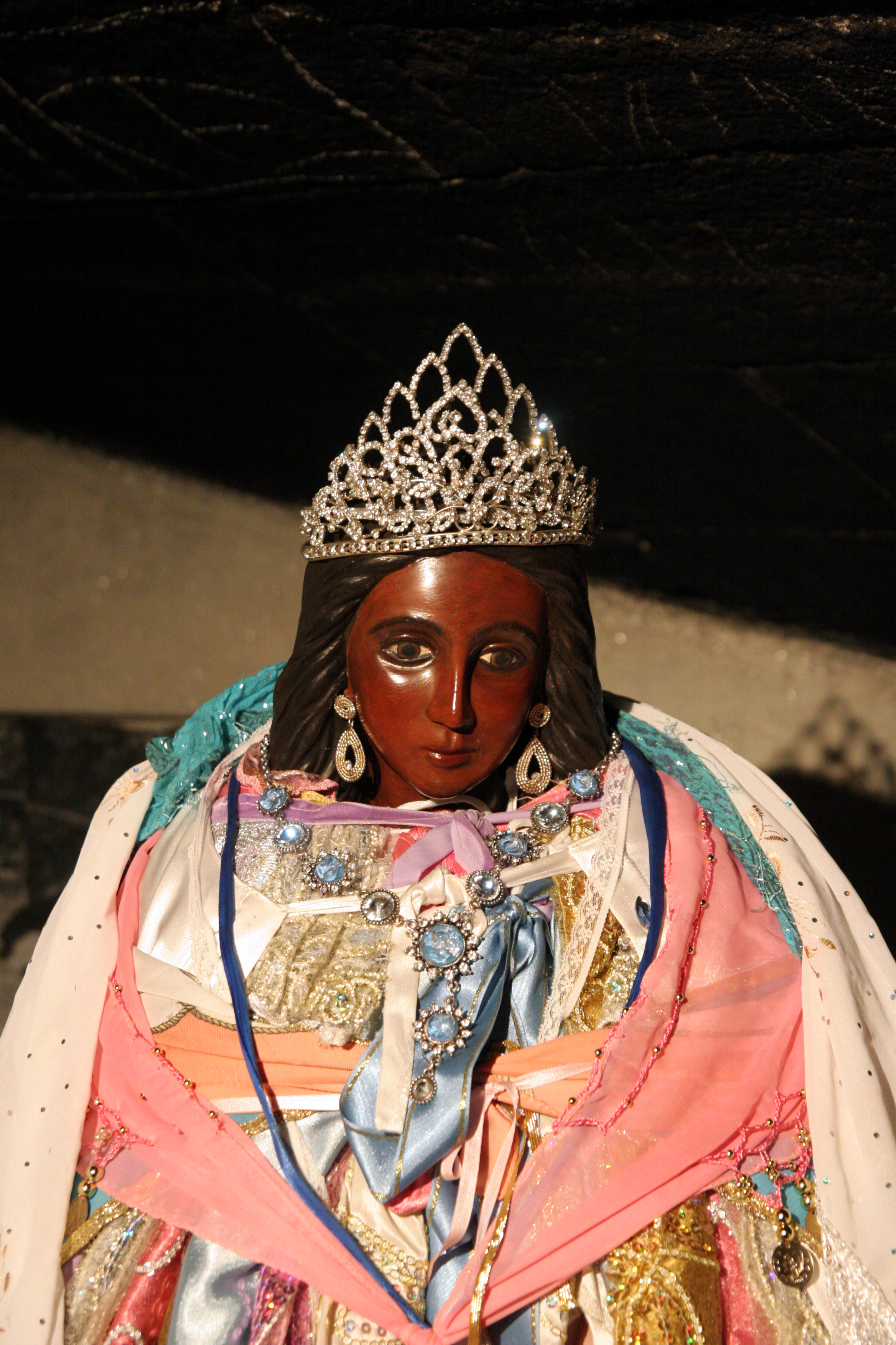 The Saint Sarah in Notre Dame de la Mer in Saintes-Maries-de-la-Mer (France).